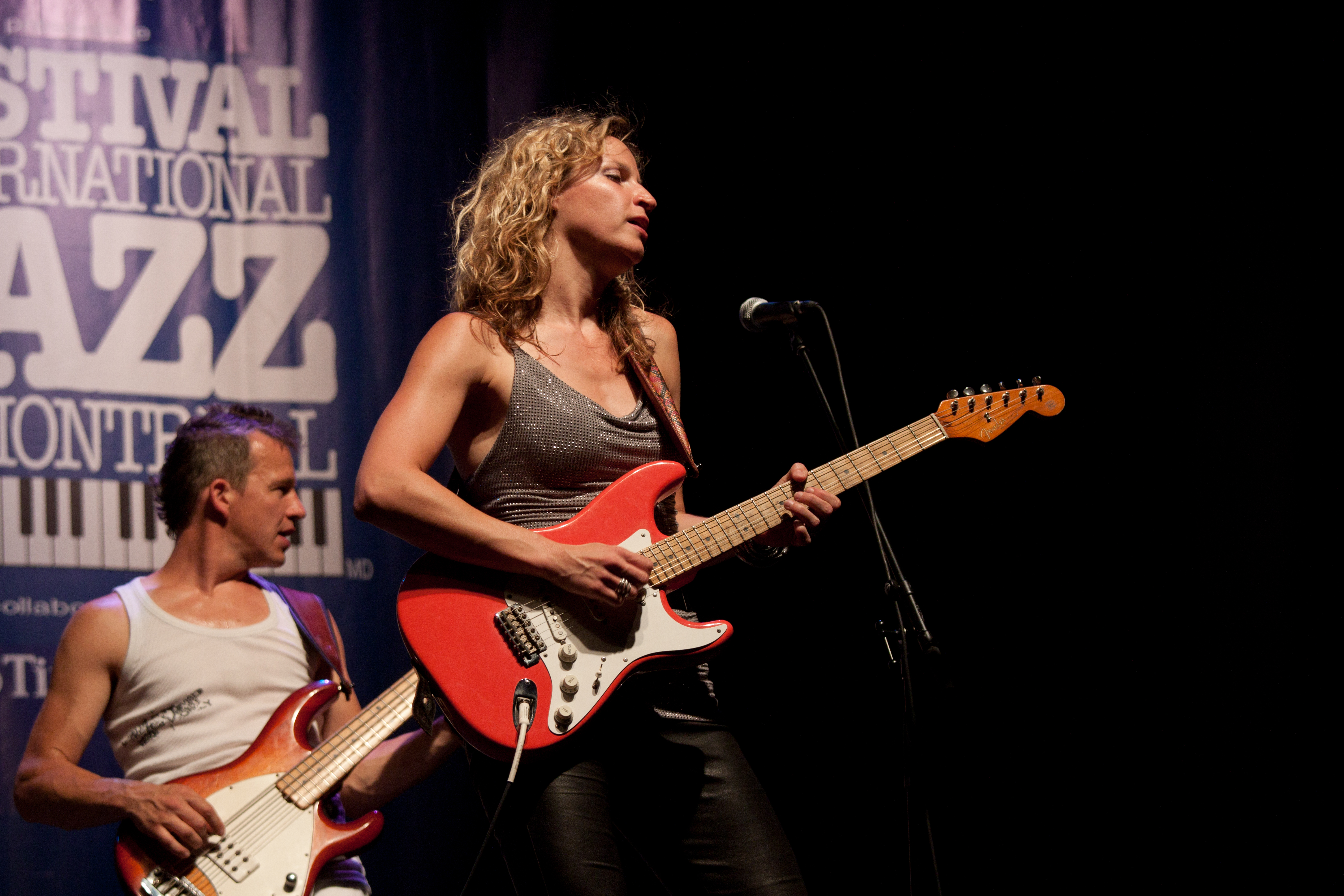 Ana Popović plays at Montreal International Jazz Festival, 5 July 2010.